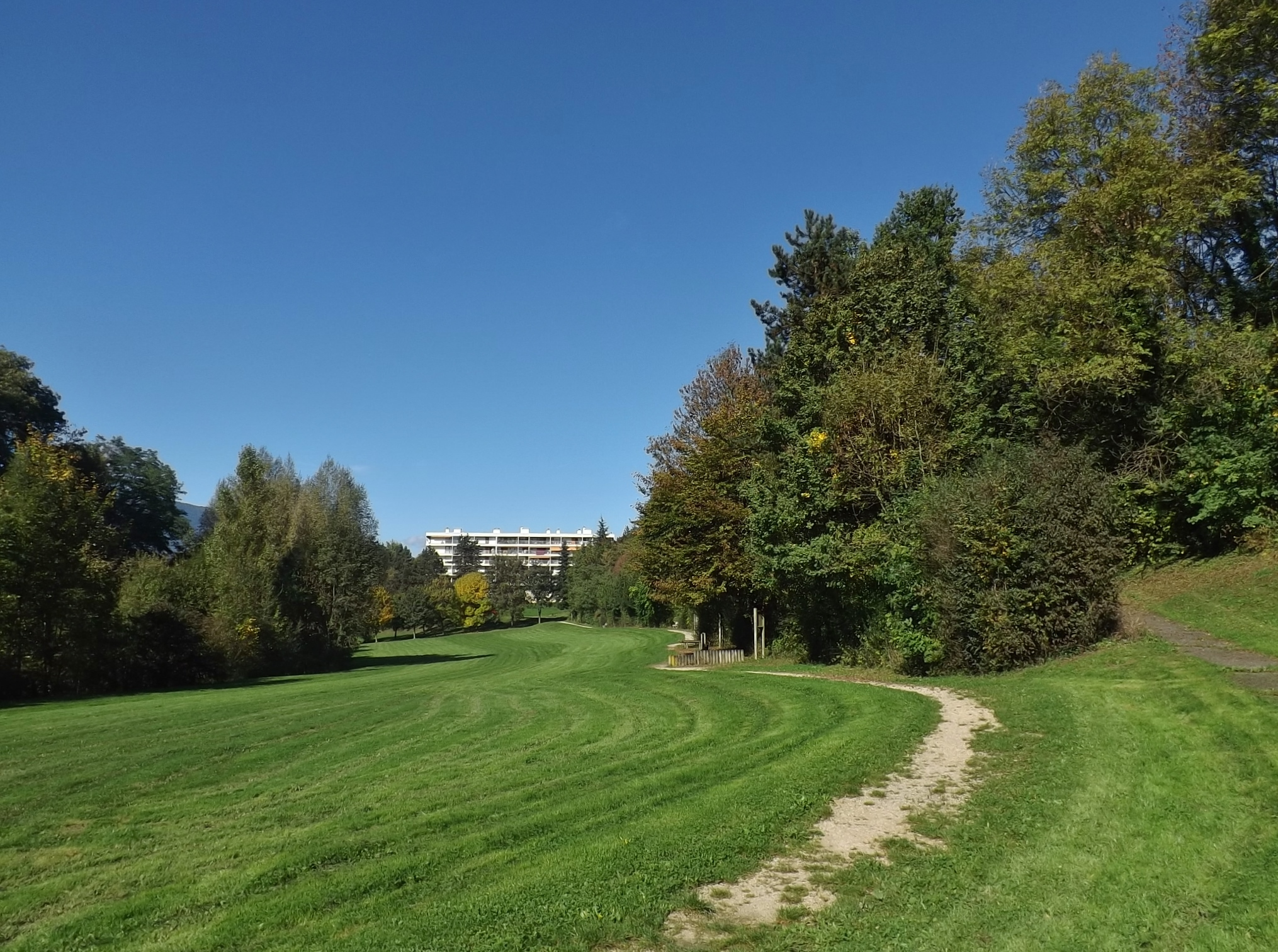 Sight of the parc du Talweg park, in the neighborhood of les Hauts-de-Chambéry ('the heights of Chambéry'), in Chambéry, Savoie, France.